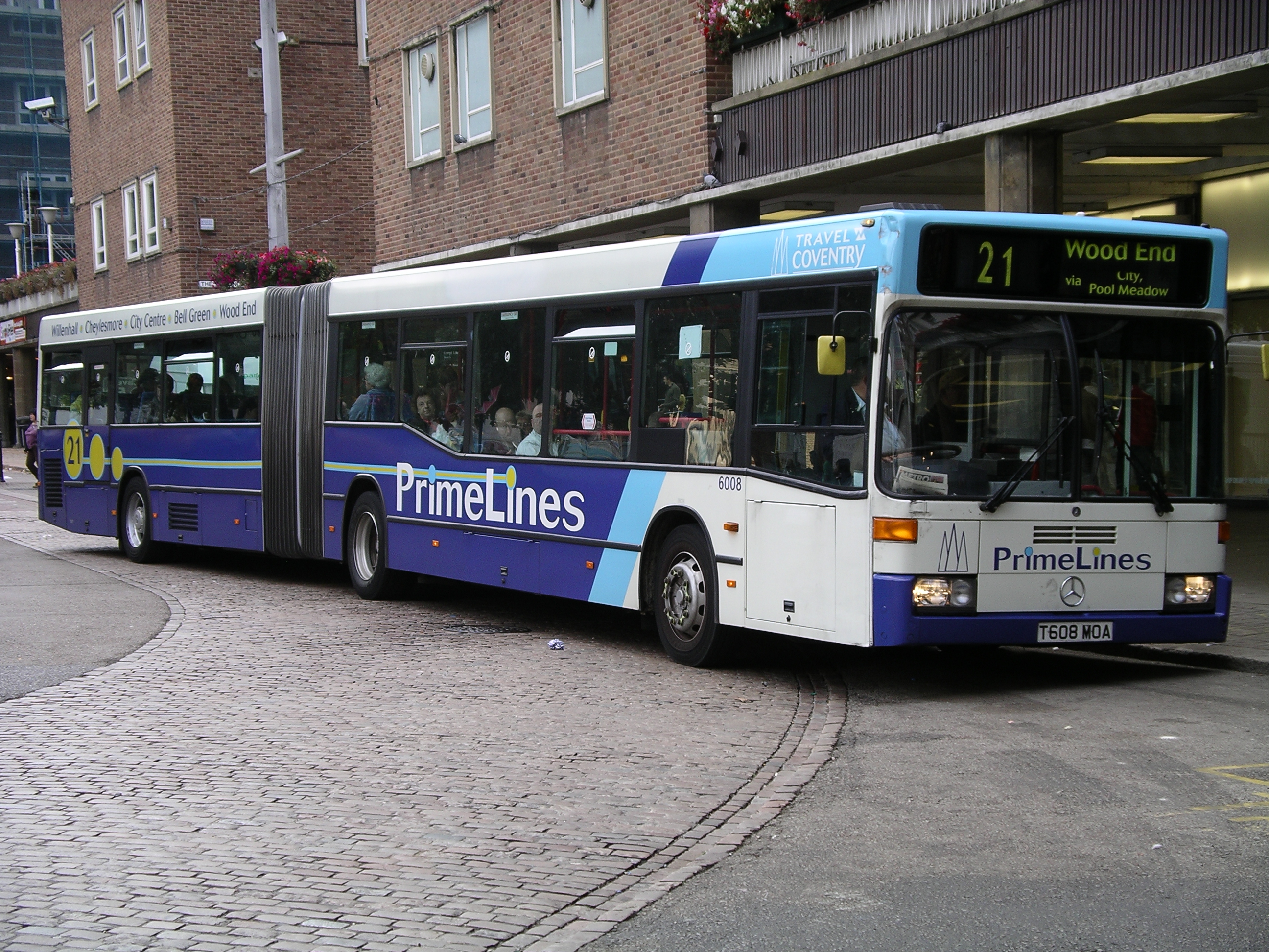 Travel Coventry 6008 (T608 MOA), a Mercedes-Benz O405 GN articulated single-decker, in Broadgate, Coventry, on route 21.